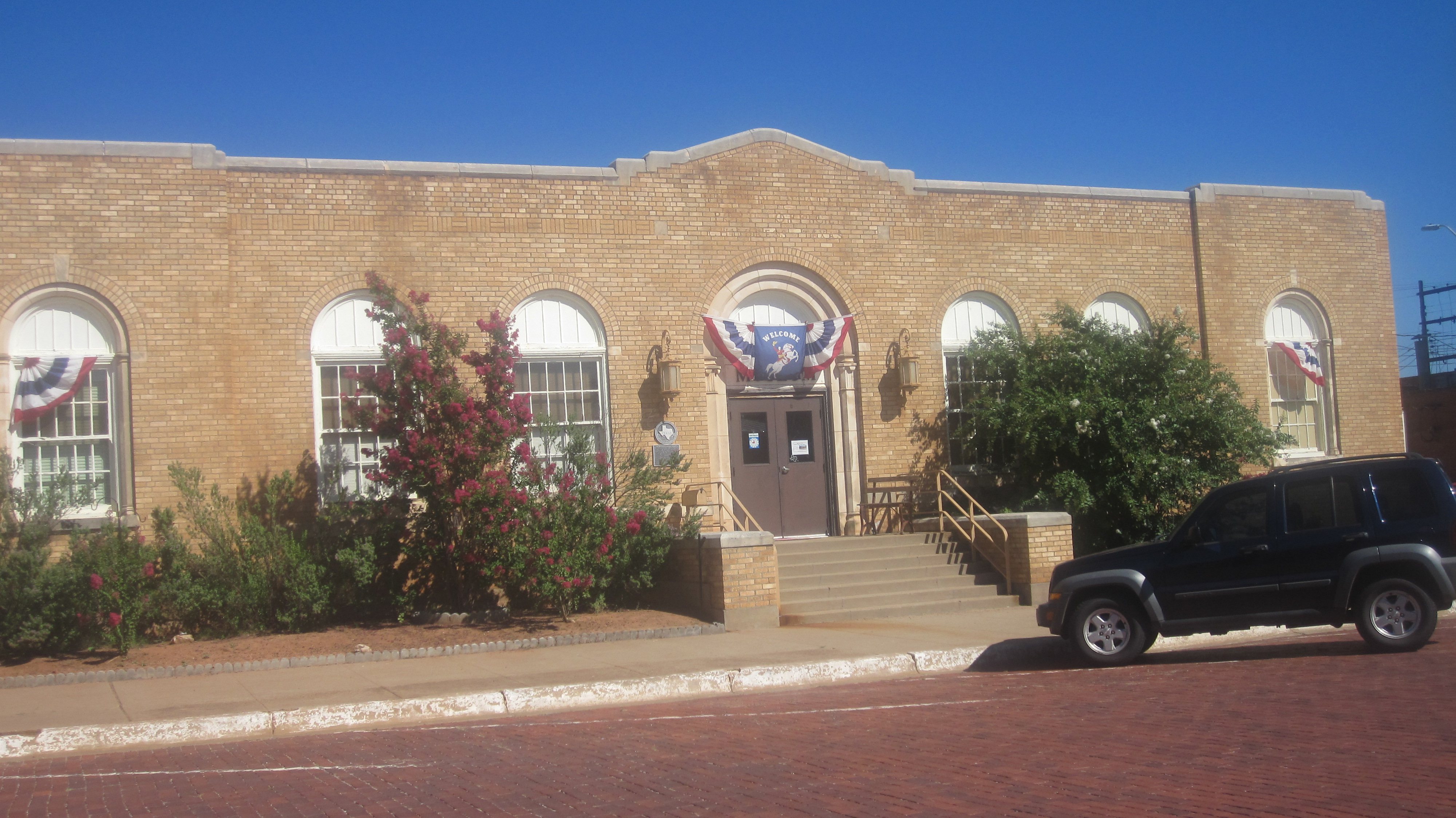 I took photo with Canon camera in Childress, TX.